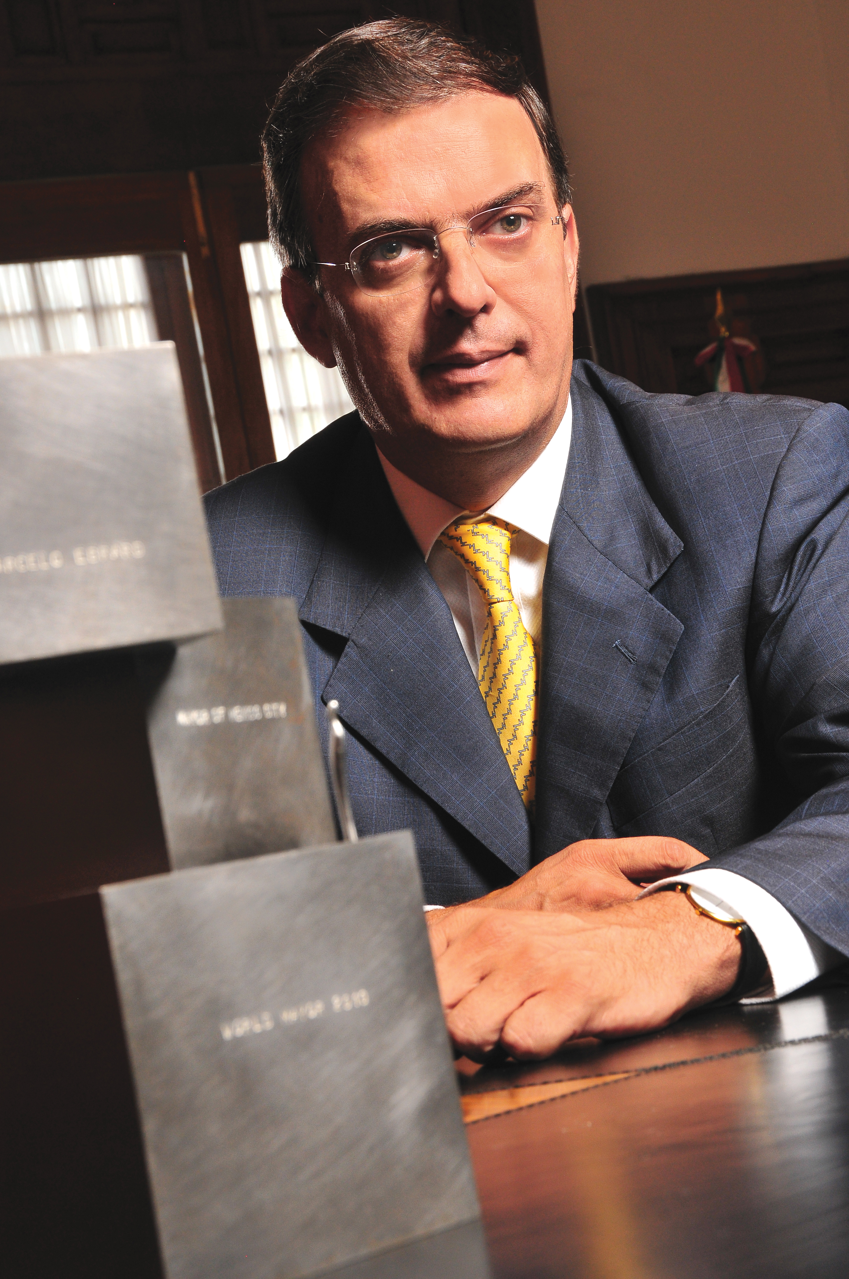 Marcelo Ebrard